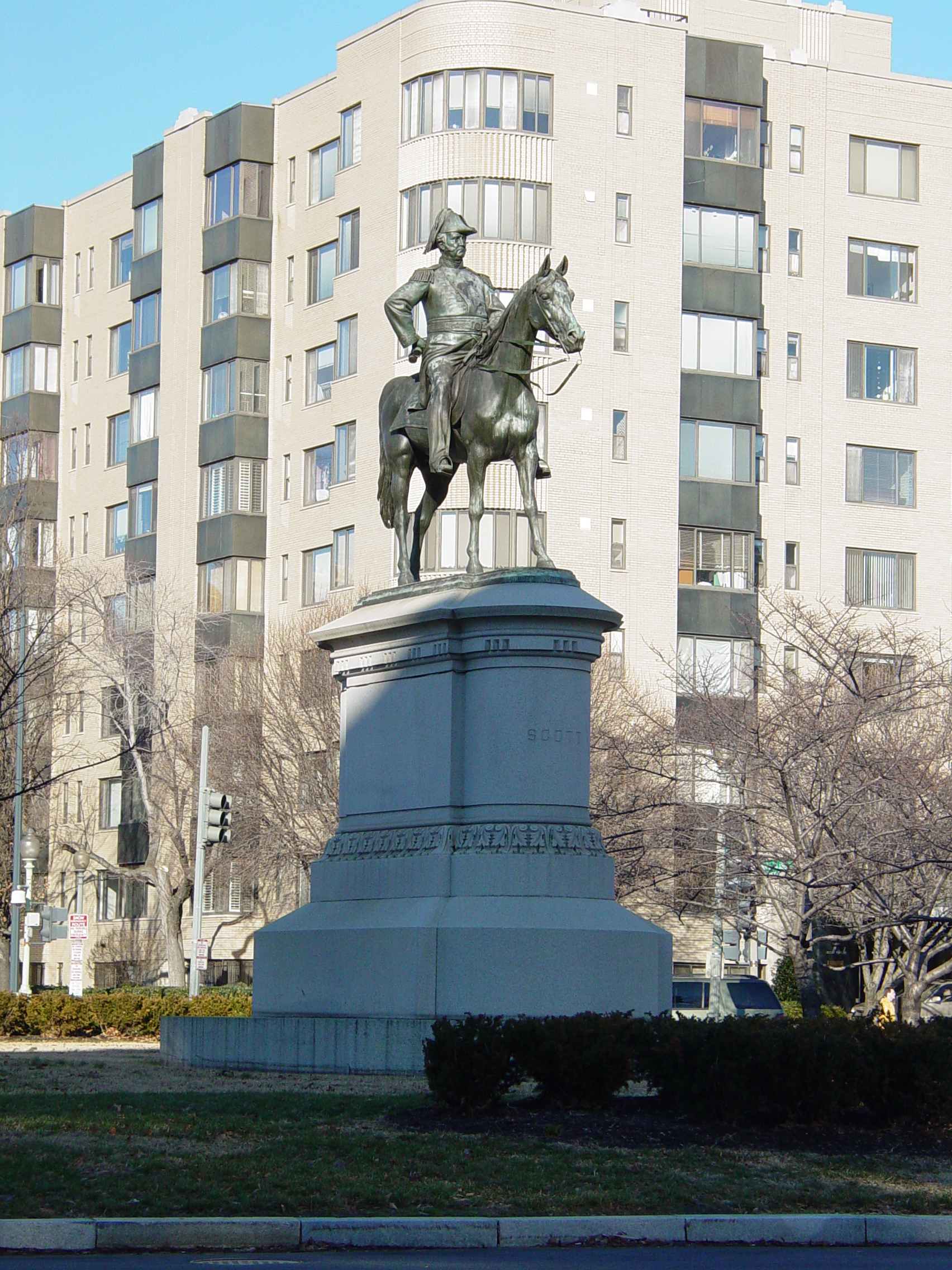 Statue of Winfield Scott by Henry Kirke Brown at the center of Scott Circle in Washington DC.